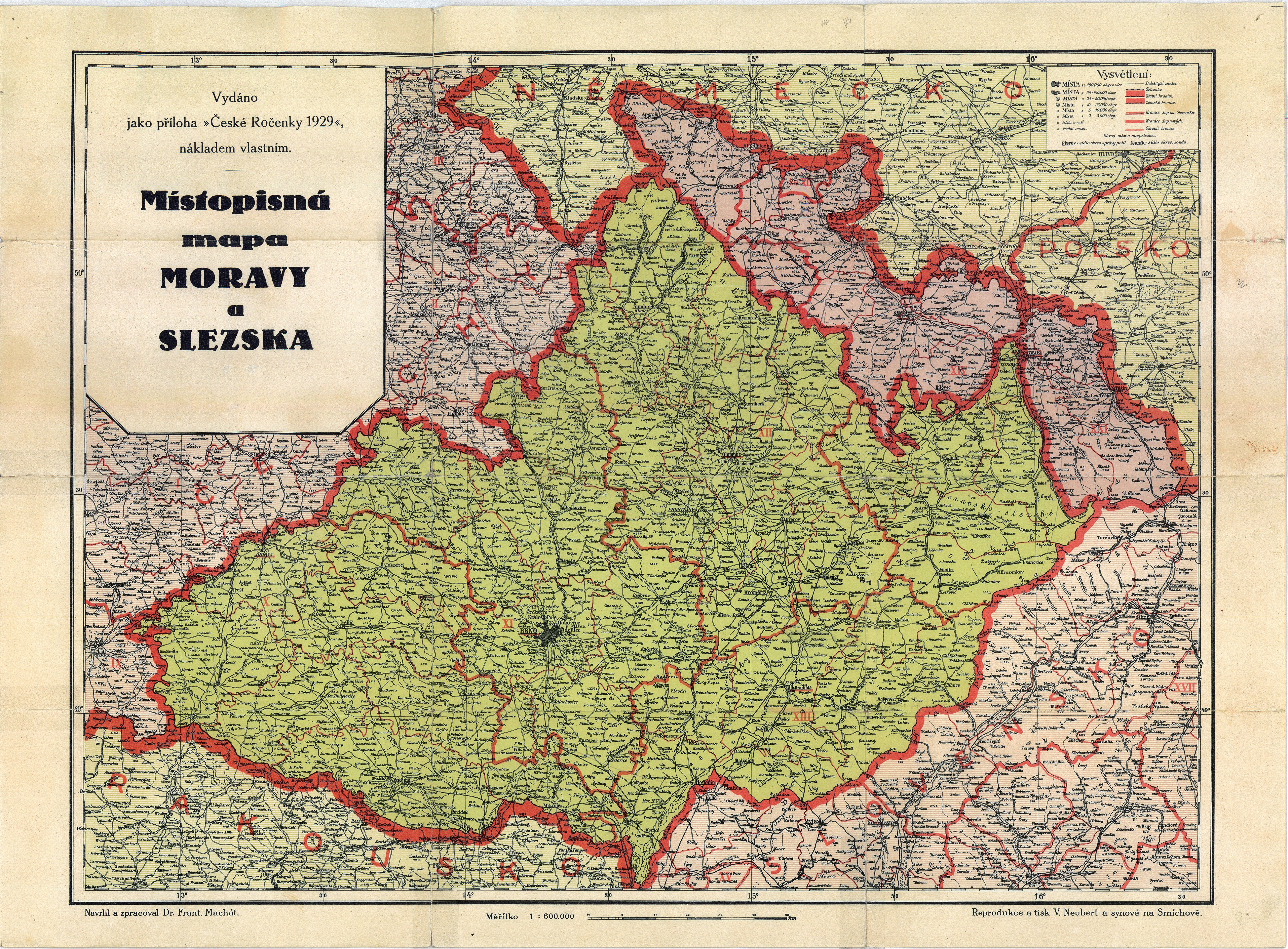 Political map of Moravia, published in Czechoslovakia 1929